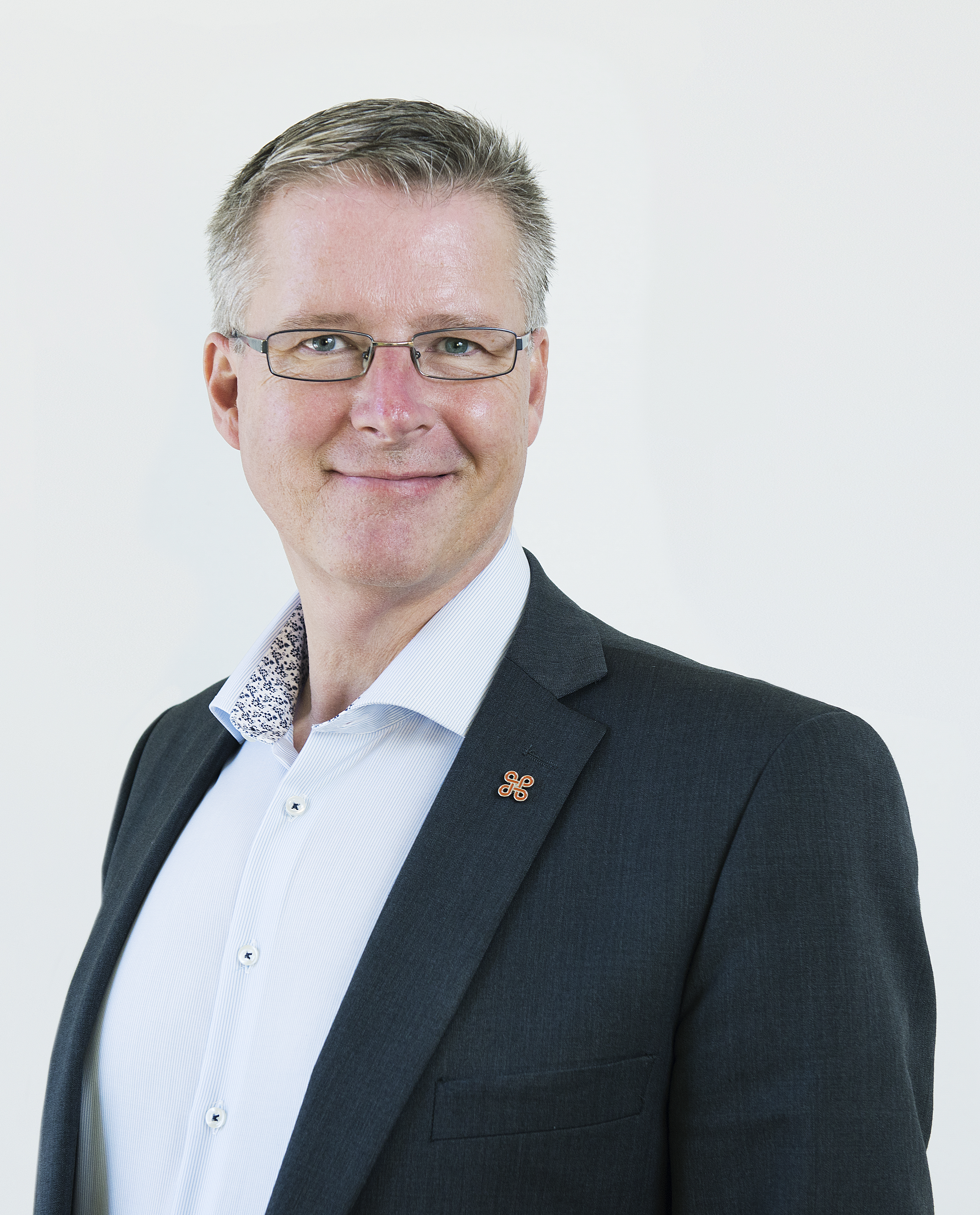 Lars Amréus, National Antiquarian (Director-general) of the Swedish National Heritage Board.